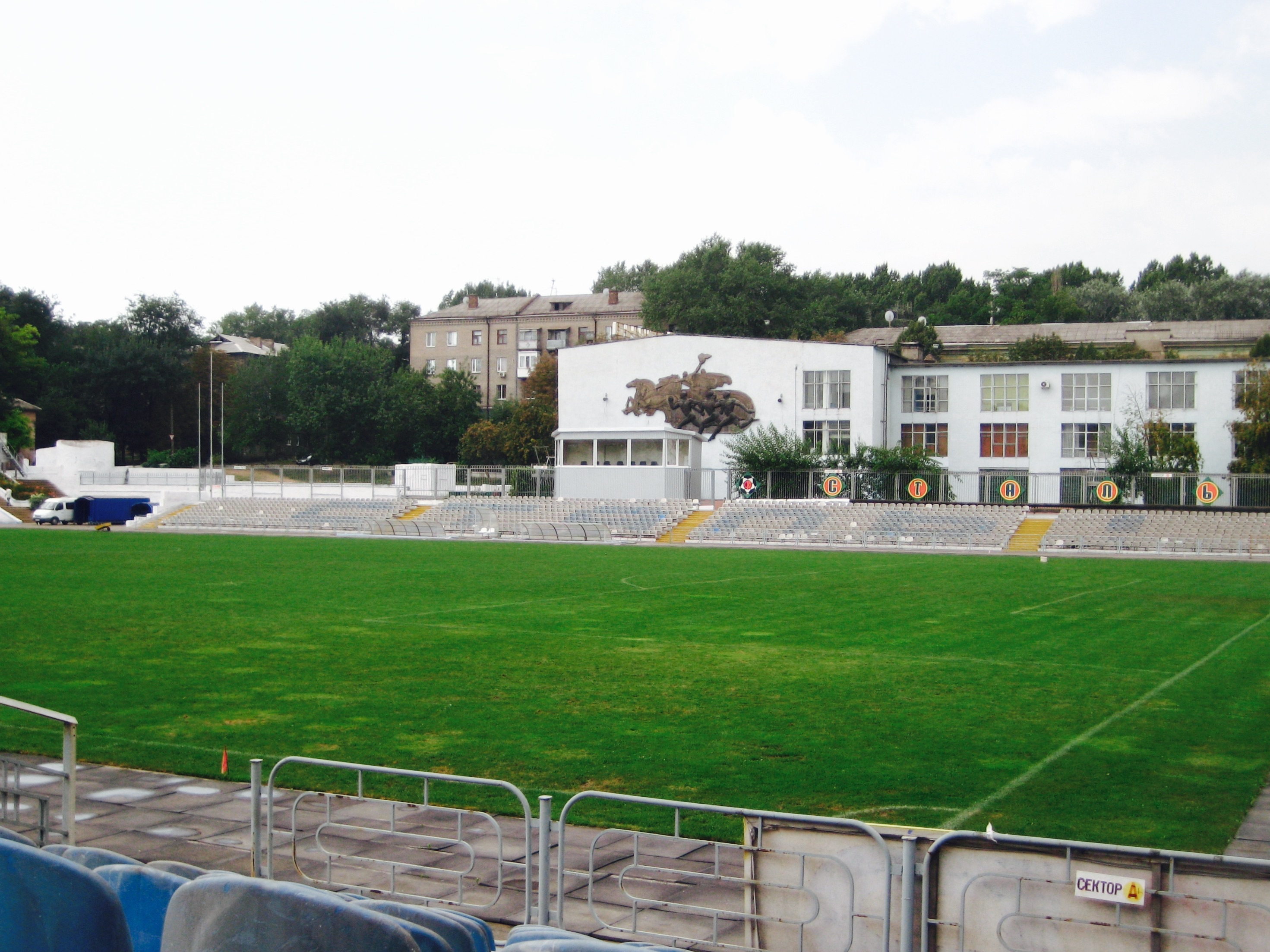 Metalurh Stadium in Dneprodzerzhinsk